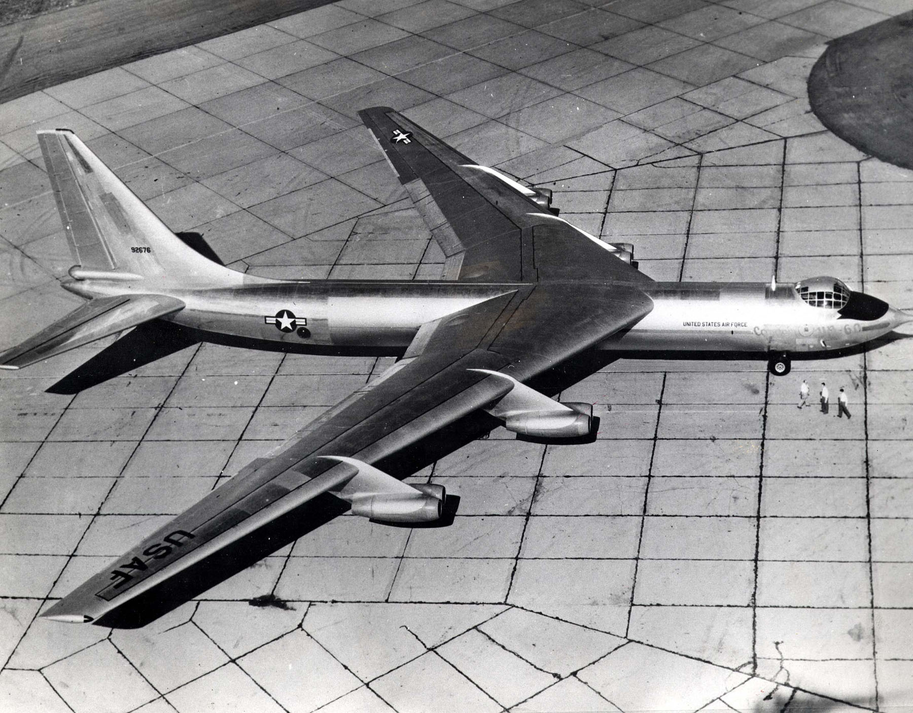 Convair YB-60 side top view (SN 49-2676)